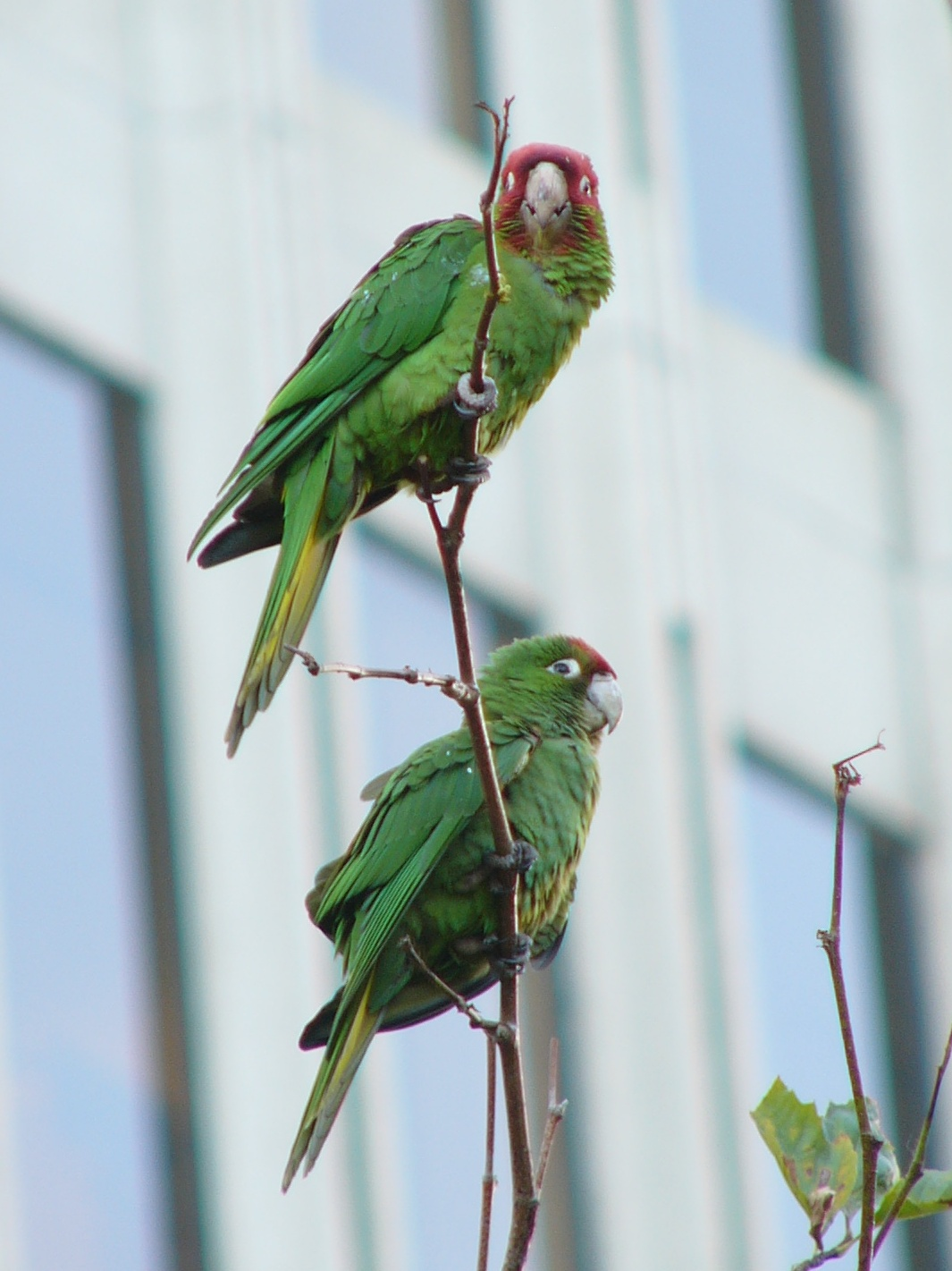 Feral Cherry-headed Conures (also known as Cherry-headed Parakeets) in San Francisco, USA